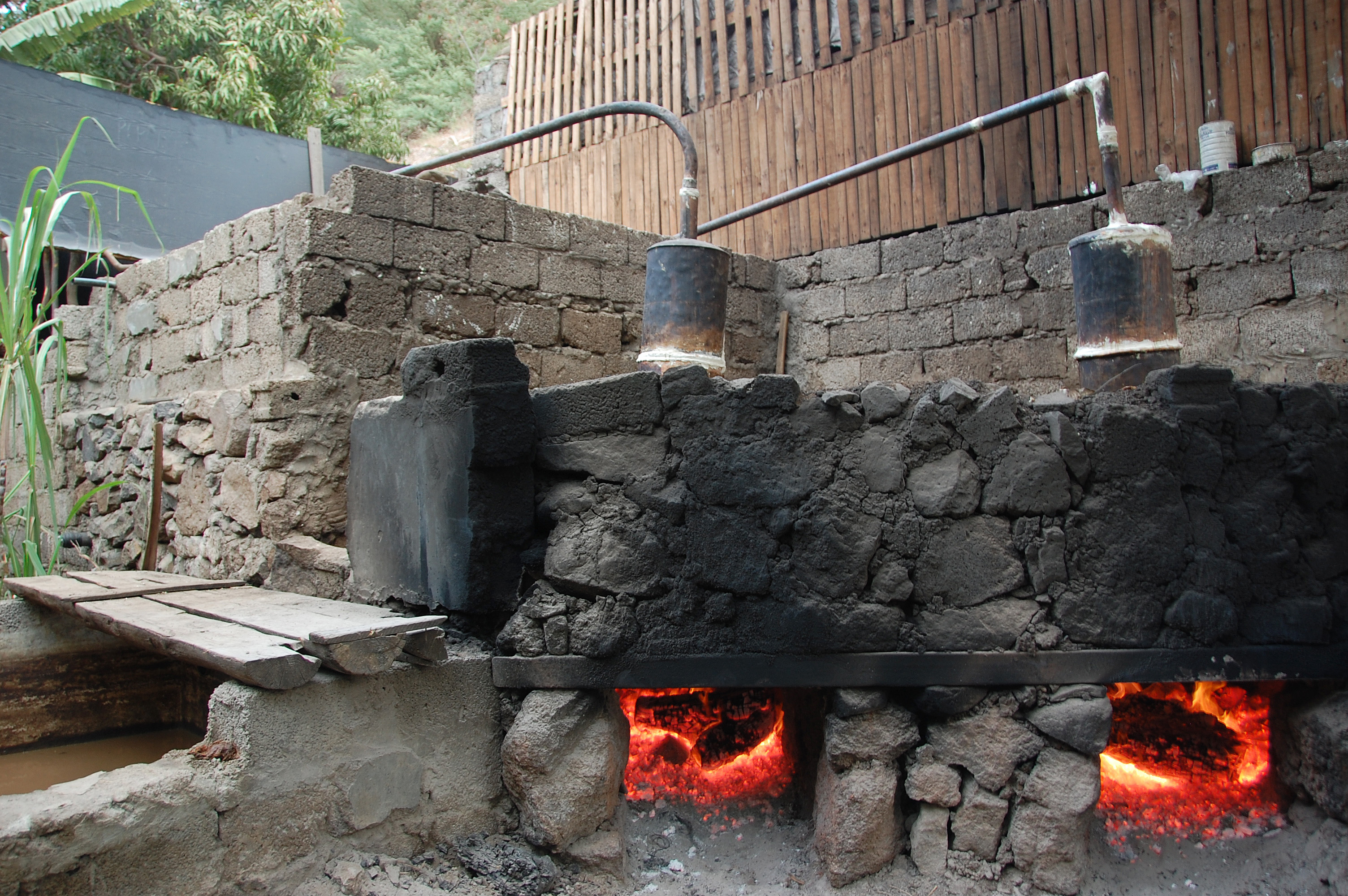 Grogue Destiller in the jungle, at the end of Rua Banana, in Cidade Velha, Santiago, Cabo Verde.